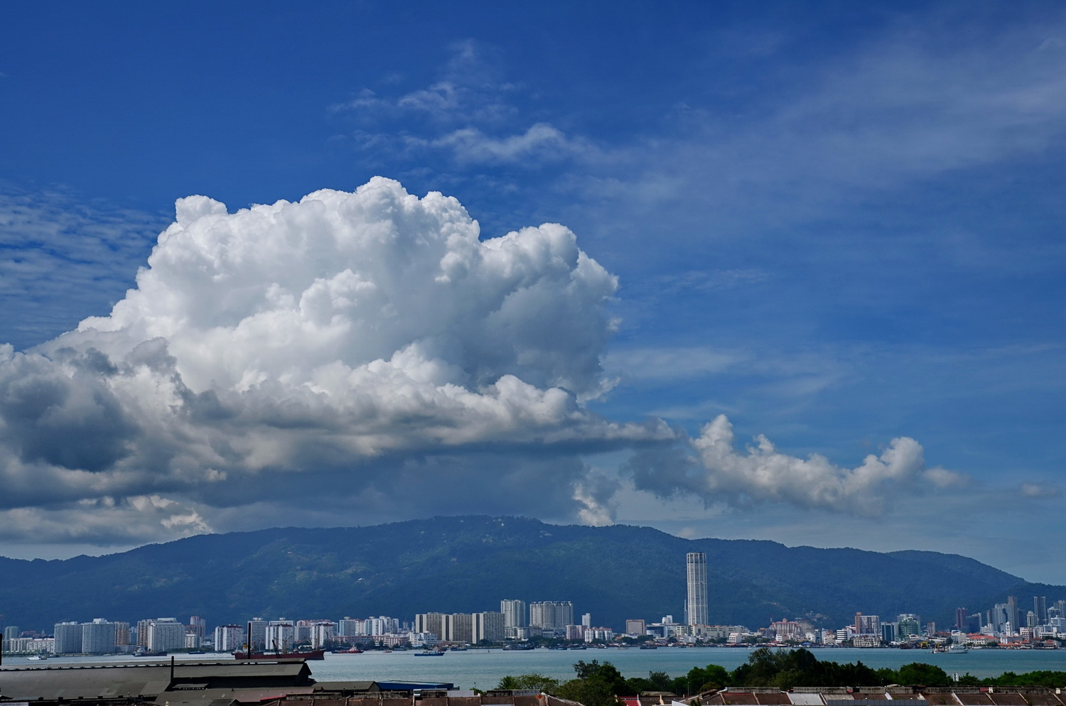 Clouds above Penang